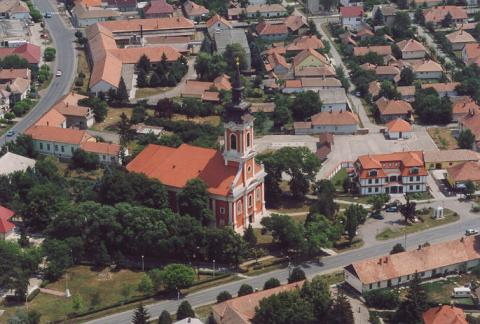 Endrőd in Gyomaendrőd, Hungary, aerialphotography, Szent Imre Katolikus Templom